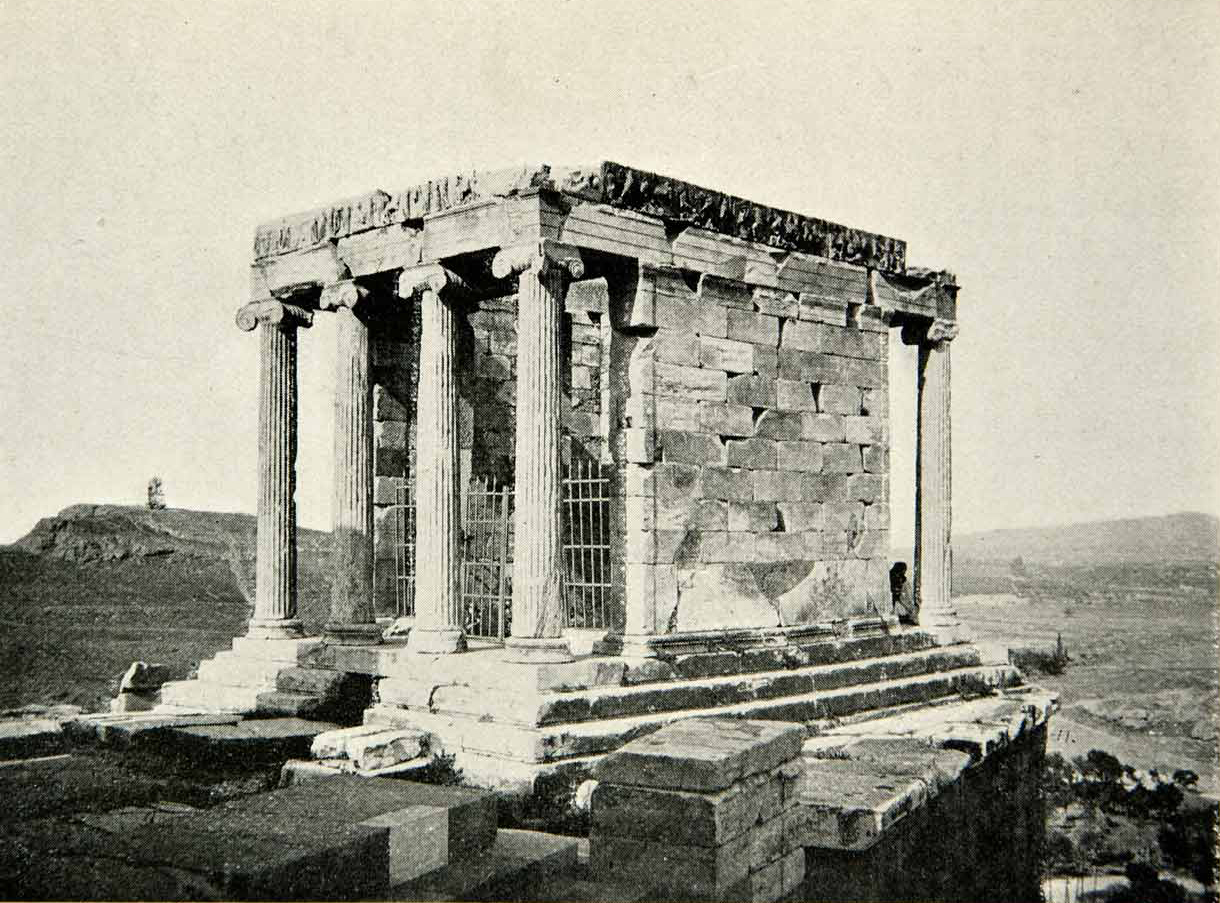 Temple of Athena Nike in Athens, 1st anastilosis. Later: Revision and correction by Balanos